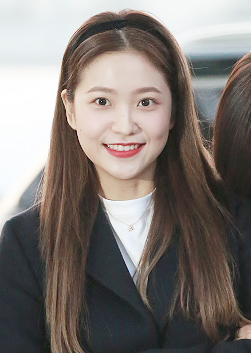 Yeri at ICN Airport on January 10, 2020